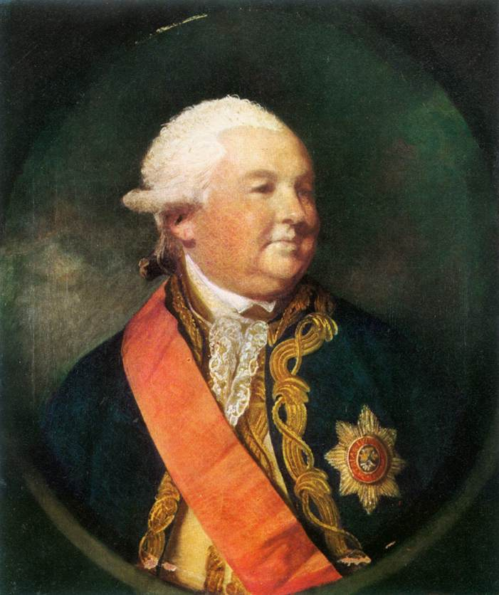 Sir Edward Hughes (c. 1720-1794)